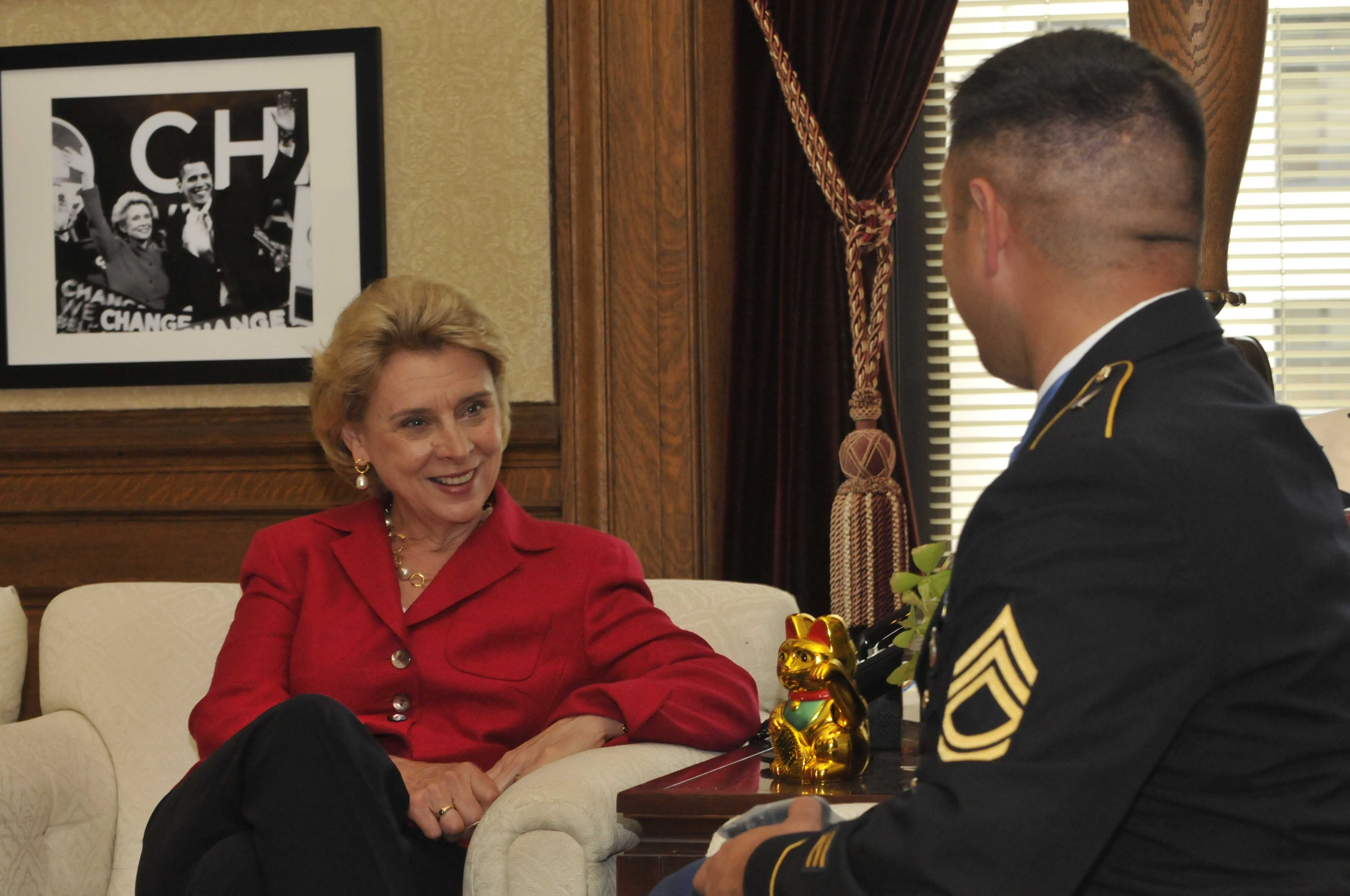 Sgt. 1st Class Leroy A. Petry, 75th Ranger Regiment Medal of Honor recipient, engages in conversation with Governor Christine Gregoire during his visit to her office in Olympia, July 20. Photo by: Sgt. David N. Russell, 1st SFG (A) Public Affairs